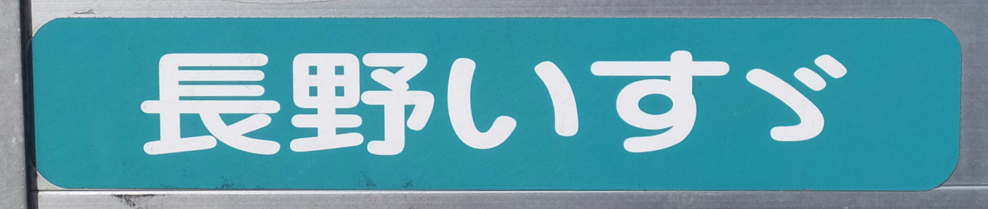 NAGANO ISUZU Corp., Decal